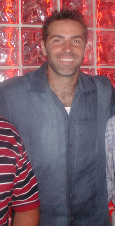 Kurt Warner with members of the 932nd Airlift Wing the evening before a little friendly flag football game. The game included members of the 932nd Airlift Wing playing in Kurt Warner's foundation, First Things First Ultimate Football event. The Air Force Reservists were able to "draft" Marc Bulger to be their quarterback for the competition. VIRIN: 041007-F-9392S-8001